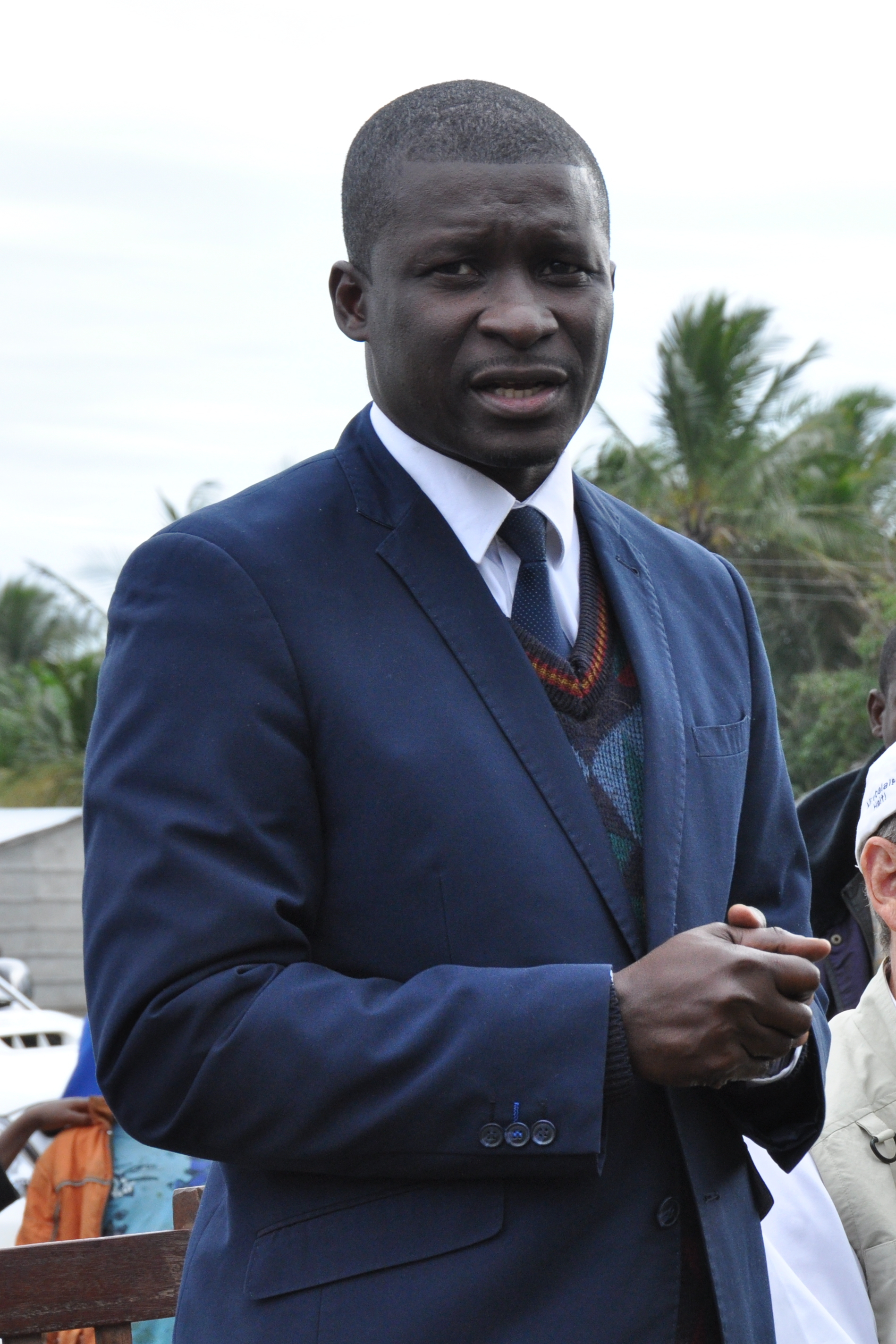 Manuel de Araújo, mayor of the Mozambican city of Quelimane